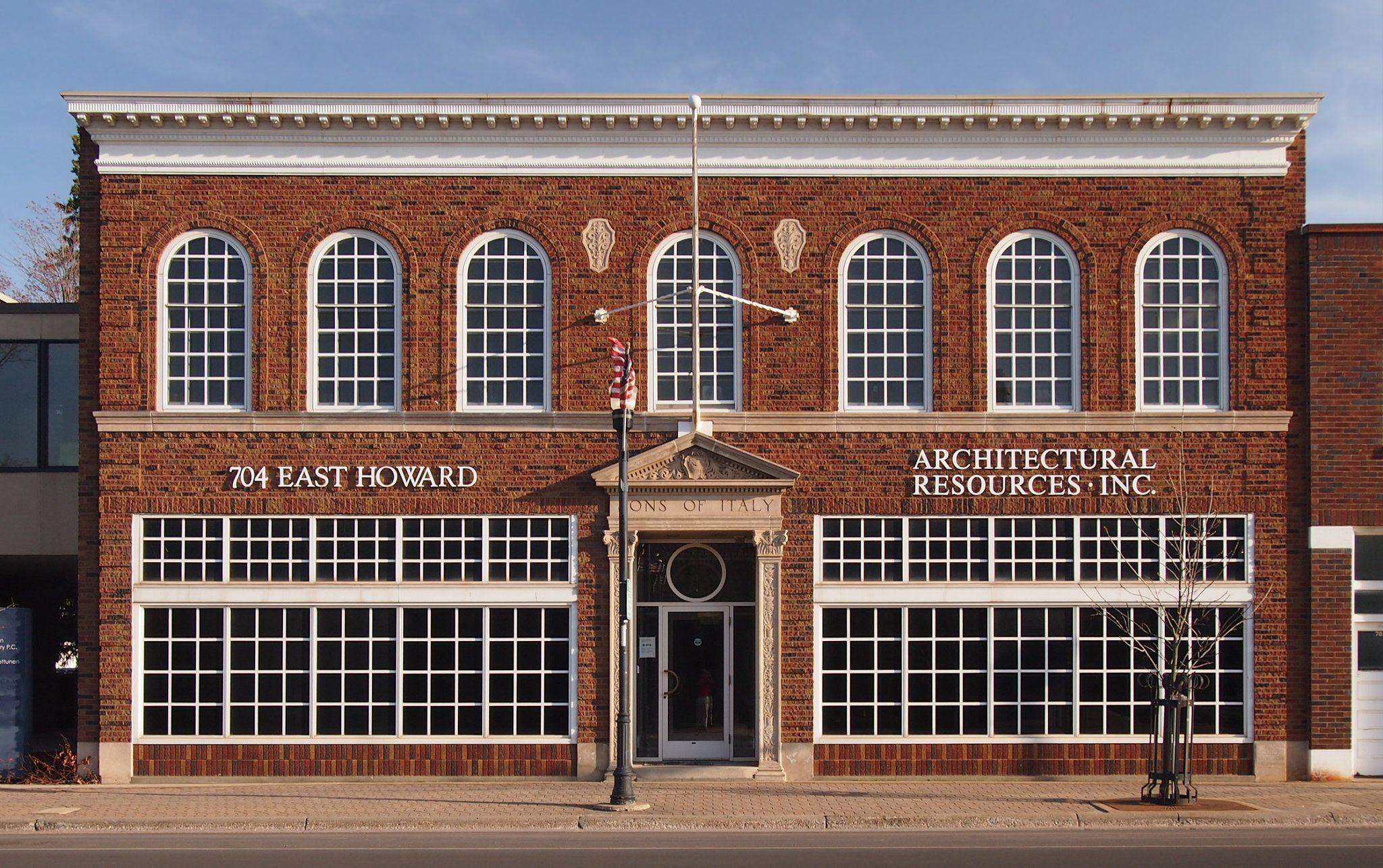 Sons of Italy Hall (now Architectural Resources, Inc.), 704 E. Howard Street, Hibbing, Minnesota, USA. Viewed near sundown on a summer evening for light on the northern façade